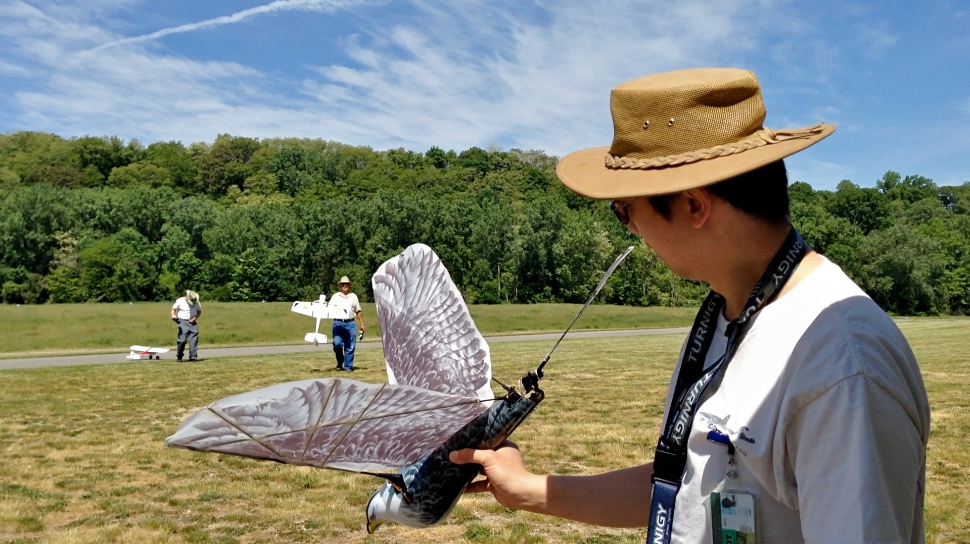 Skyonme_Spybird, a type of radio-controlled ornithopter, at the HHAMS Aerodrome. Video of the ornithopter in flight can be found here.